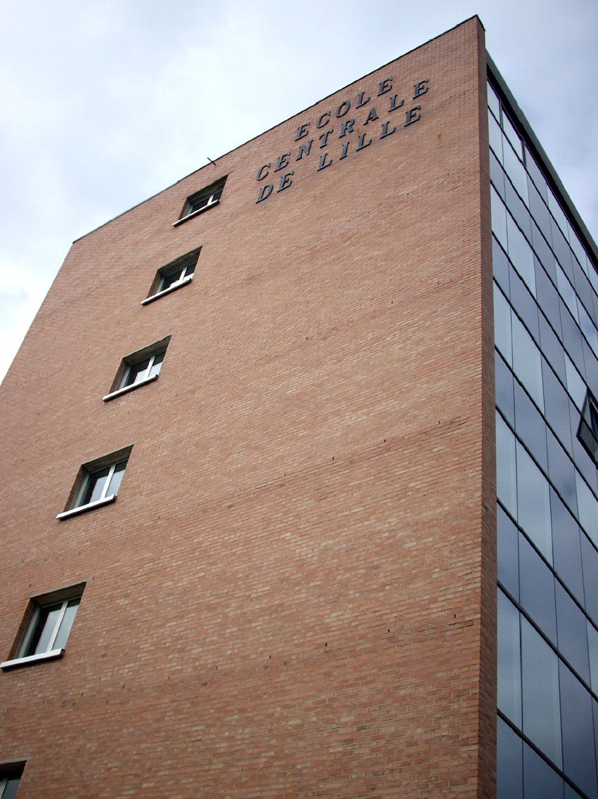 École centrale de Lille - Building E